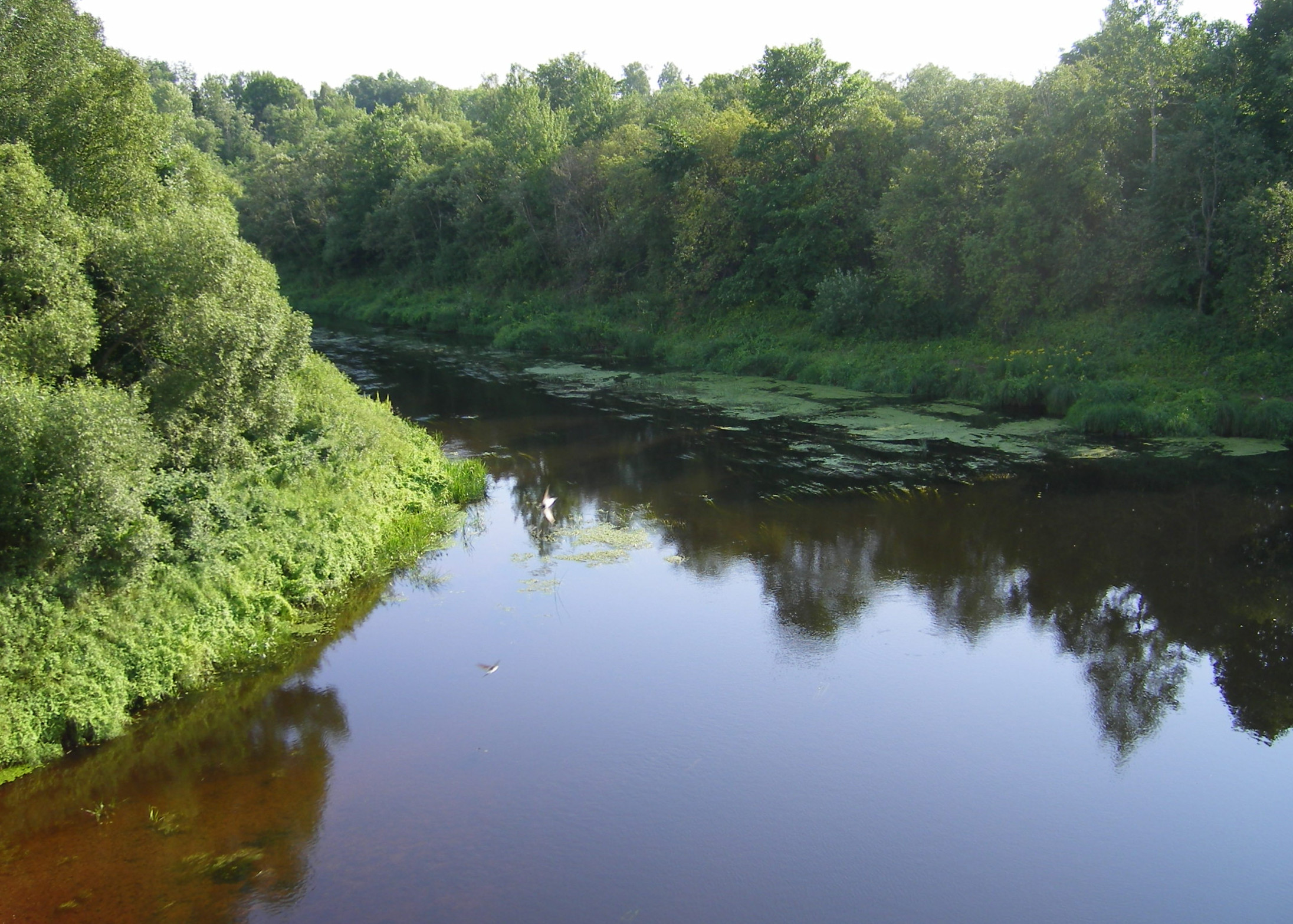 Obal River in Pogirshchino village, Shumilina Raion